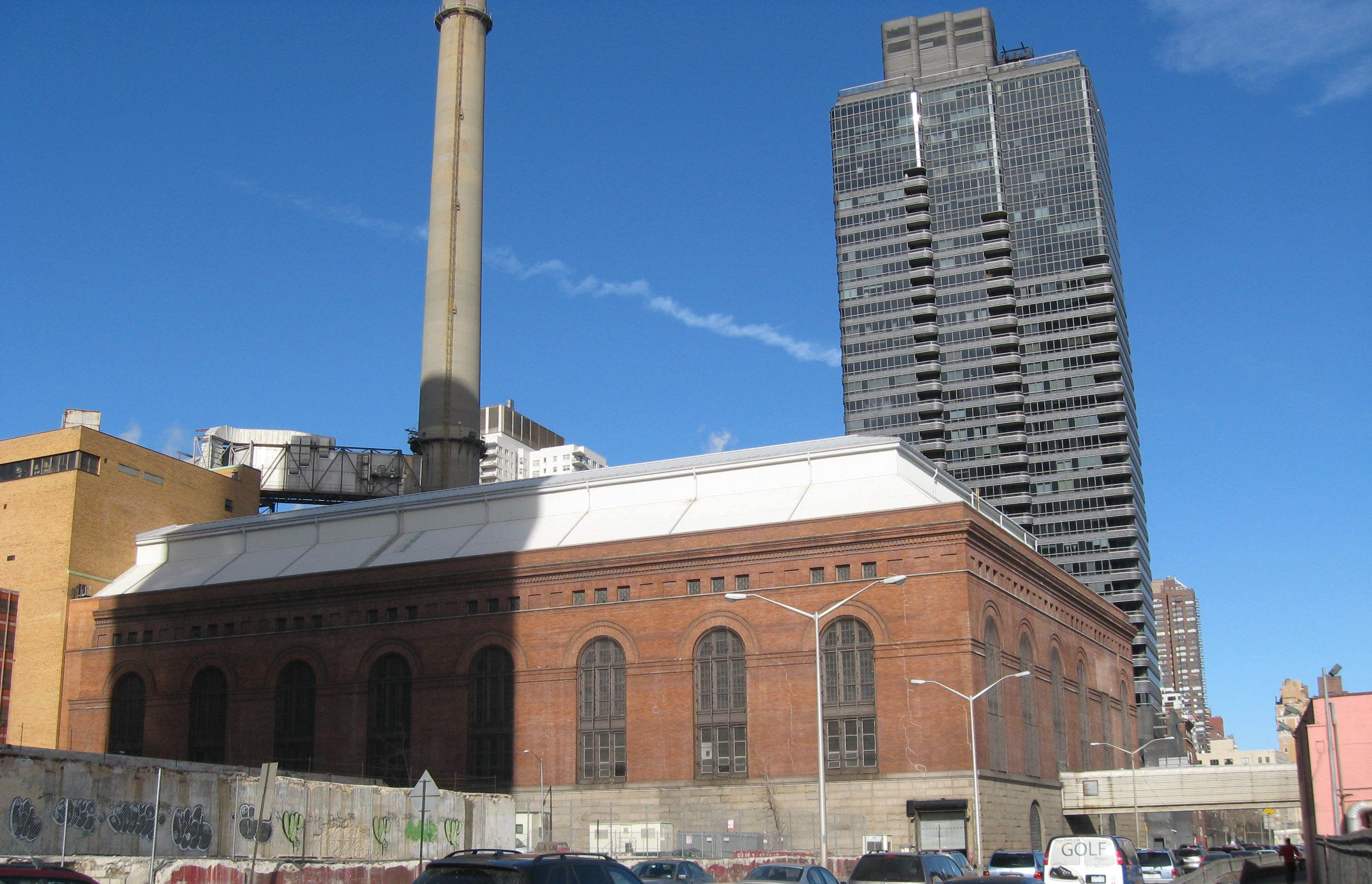 Looking north at Con Edison plant on East 74th Street, New York City. Originally powering elevated railroads, (see Construction) now part of New York City steam system, on a mostly clear early afternoon.